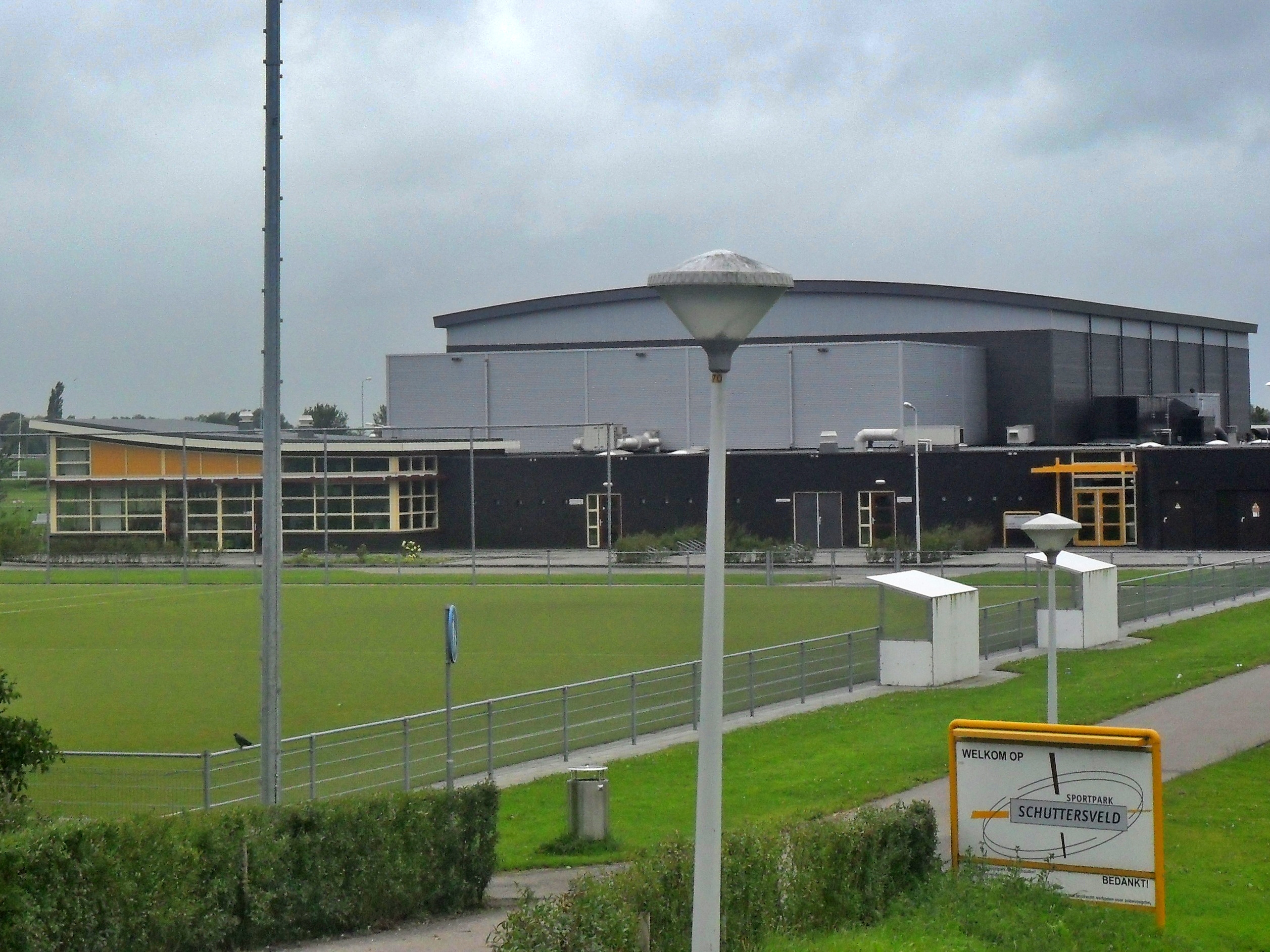 Schuttersveld Sportcentre in Sneek